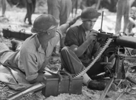 Aerodrome Defence Guards manning a Vickers gun on Kiriwina Island, Papua New Guinea, 1944